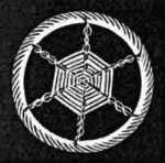 Woven spider wheel, used in Branscombe tape lace